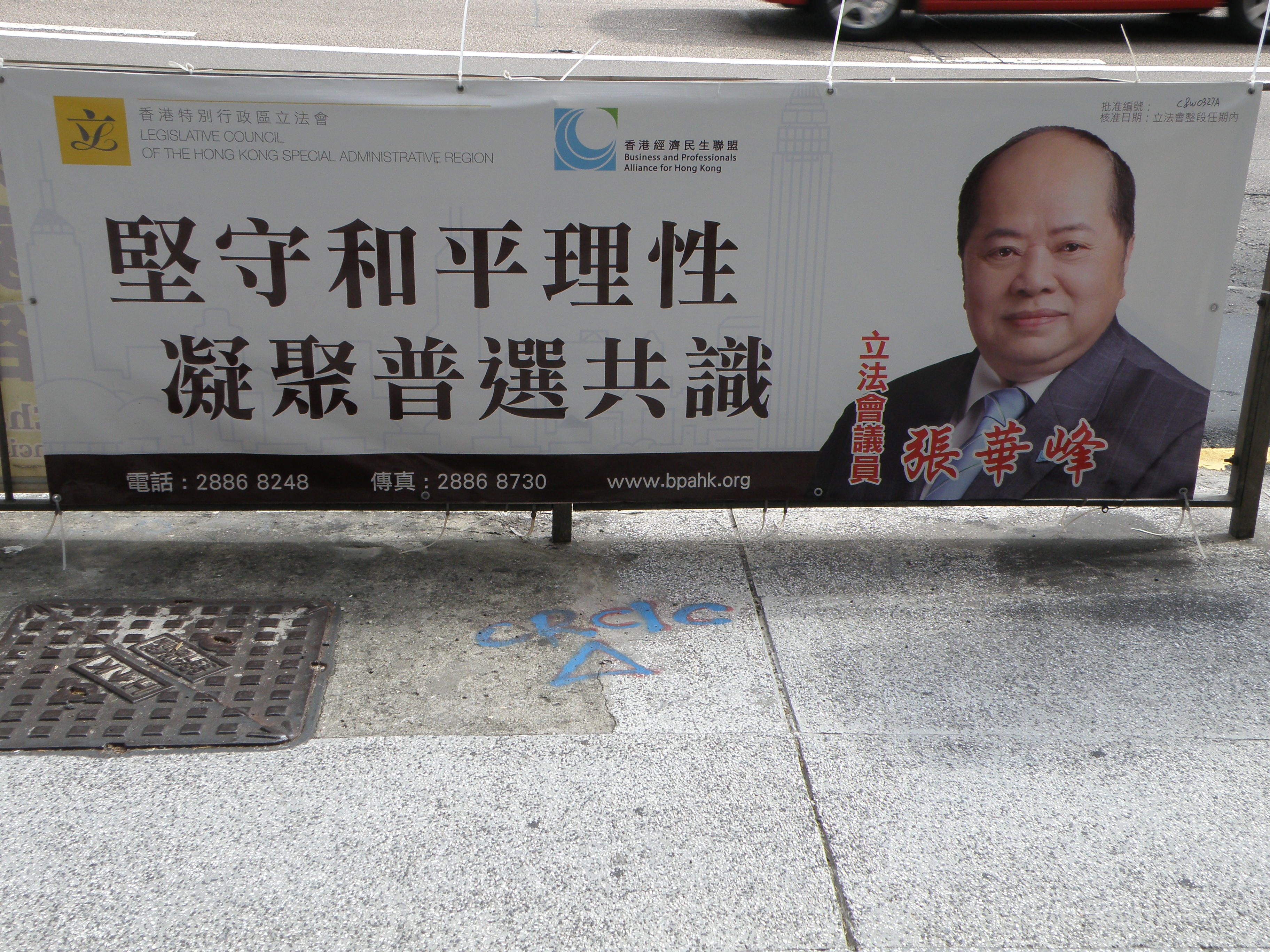 Christopher Wah-Fung Cheung, founder and chief executive officer of Christfund Securities and a member of the Legislative Council of Hong Kong.